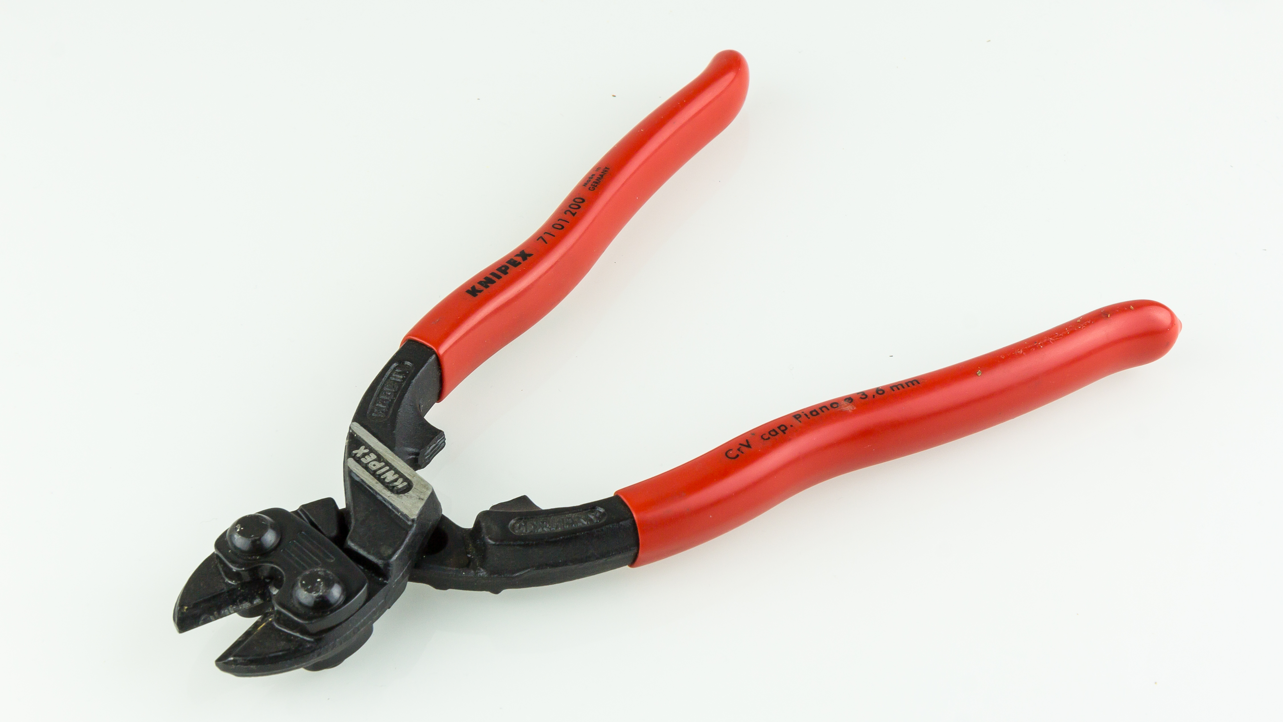 Knipex CoBolt compact bolt cutter. Product# 71 01 200.